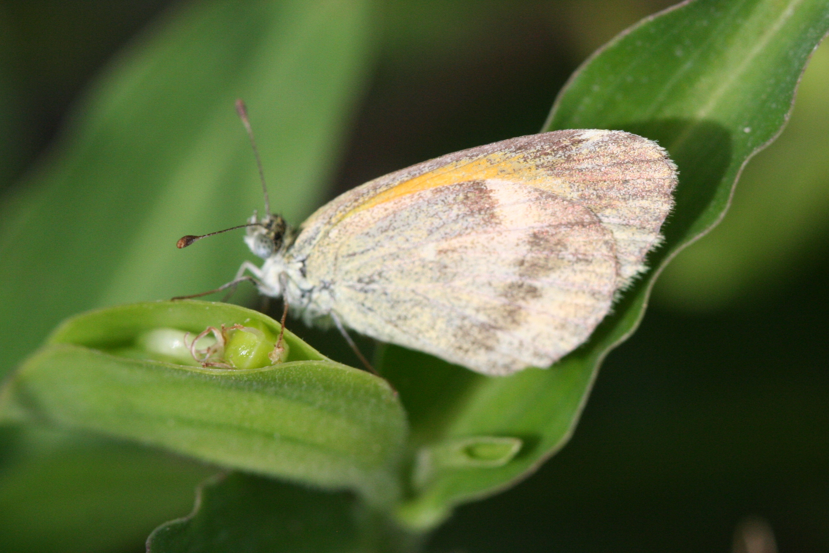 Dainty sulphur (Nathalis iole)